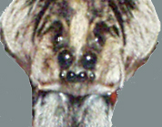 Digitally modified picture of the eye pattern of the Hogna genus of the Lycosidae (wolf spiders). Such patterns are useful for determining species.